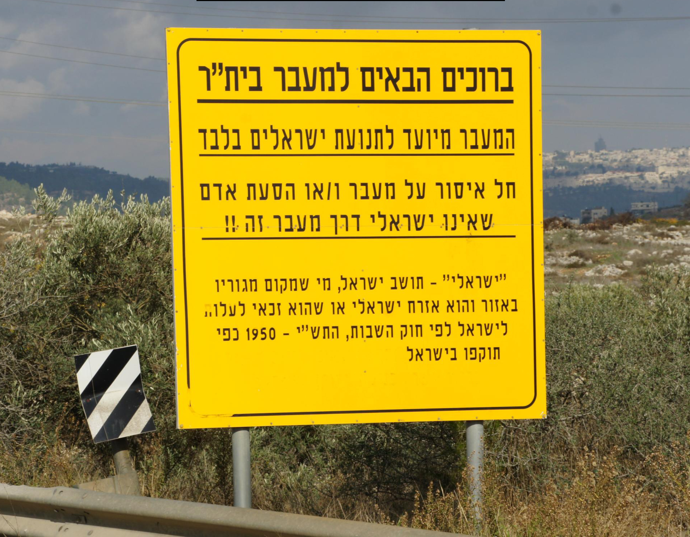 A sign near Beitar Crossing checkpoint between Israel and the occupied territories. The sign declares that the crossing is designated for Israelis only (and also for those eligible to immigrate to Israel under the Law of Return)